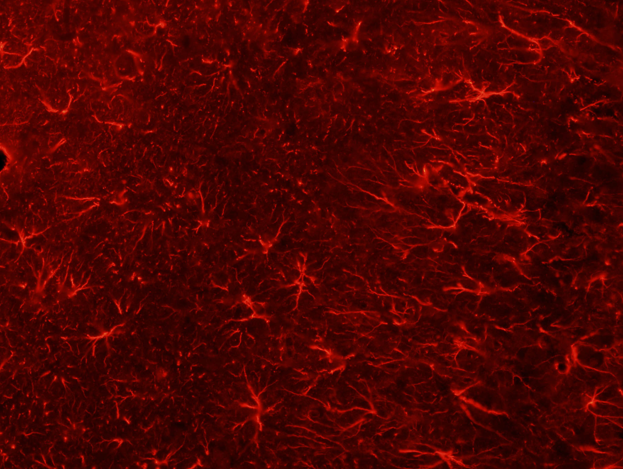 GFAP stain of glial cells in rat brain